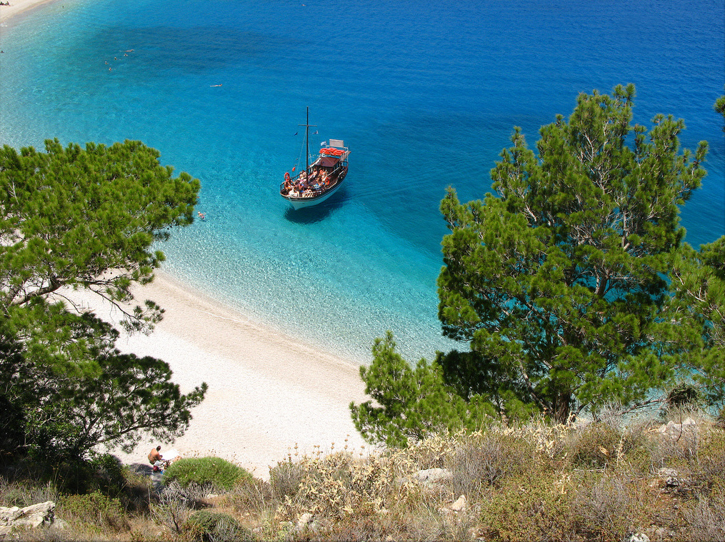 Karpathos is an island between Rhodos and Crete. Beaches on the east coast (north from the main city) really looks like from the travel catalogue. No postprocessing.